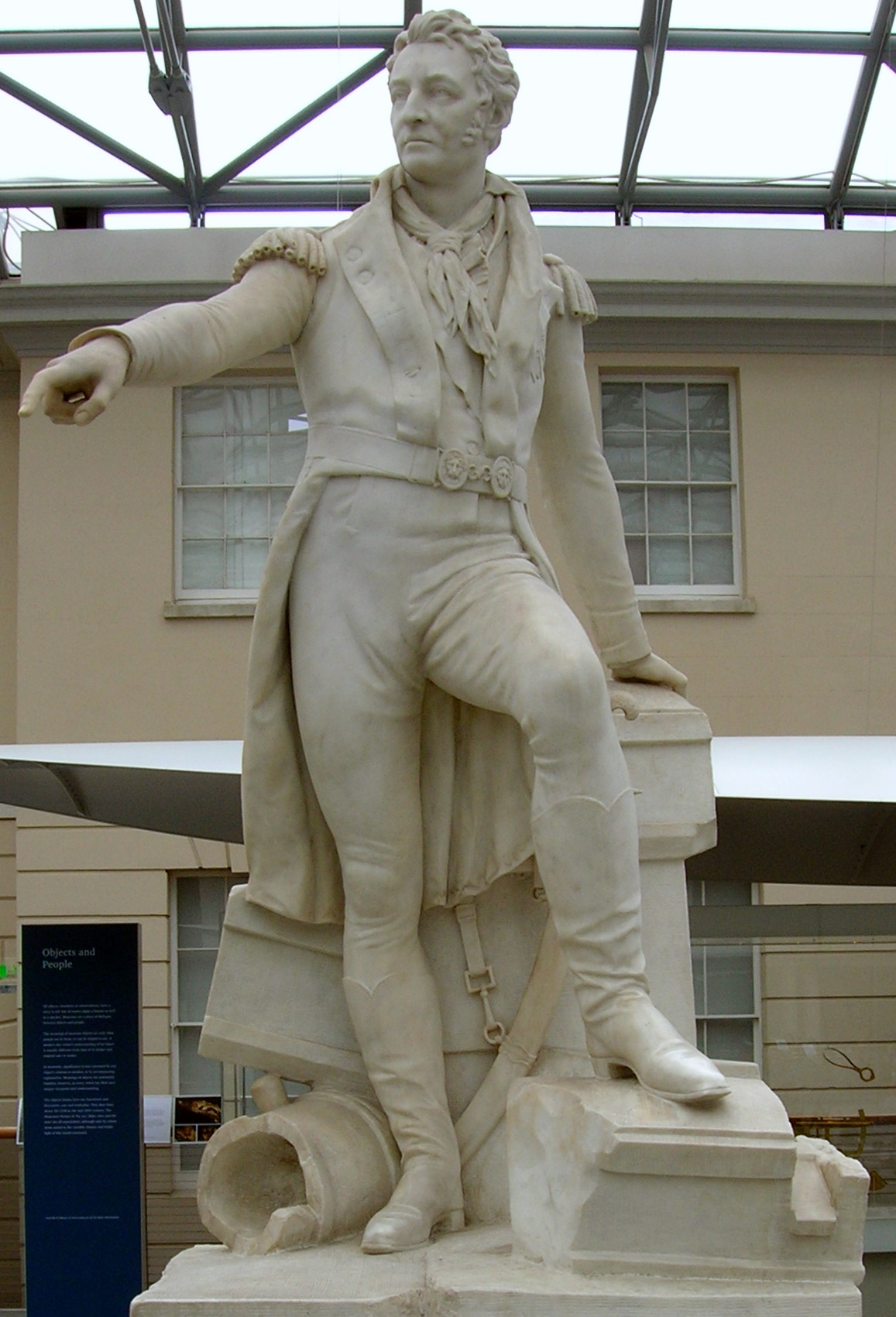 Statue of the Admiral Sir William Sidney Smith, 1764 - 1840, by Thomas Kirk, Dublin, 1845.